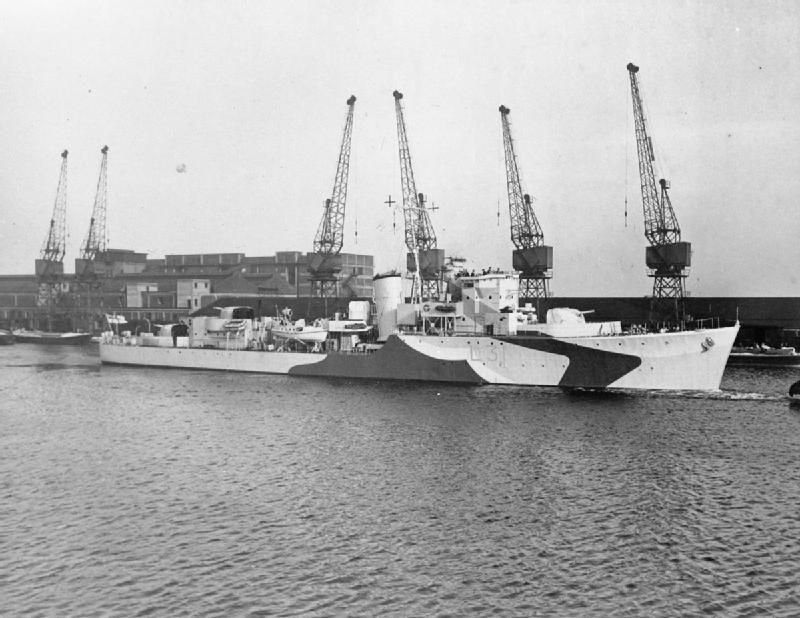 Photograph of British destroyer HMS Chiddingfold on completion.